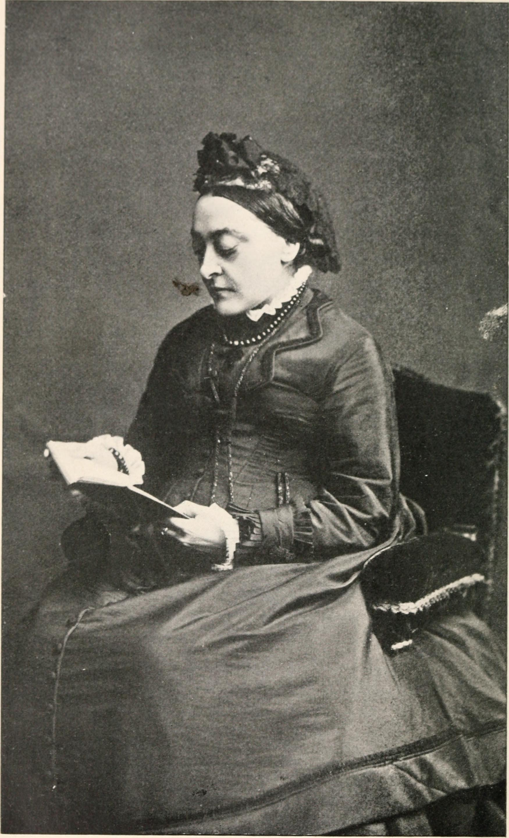 Title: Personal sketches of recent authors Year: 1898 (1890s) Authors: Griswold, Hattie Tyng, 1840-1909 Subjects: Authors, English Authors, American Publisher: Chicago, A. C. McClurg and company Text Appearing Before Image: THE NEW YC PUBLIC LIBRARY STOR, LENOX ANDJ3EN FOUNDATIONS. Text Appearing After Image: CHRISTINA ROSSETTI. CHRISTINA ROSSETTI. THE Rossetti family, with their genius and theirstriking individuality, have occupied a largespace in current literary history. There has been afascination connected with the very name, with itsforeign associations, and mysterious hints as to the conspiracy which had placed them upon Englishsoil. Gabriele Rossetti, the father of Dante Gabriel,William Michael, Mary Francesca, and Christina Ros-setti, was born in Vasto, on the Adriatic coast, inthe kingdom of Naples in 1783. Secret societieswere a part of the very life of the Italians at thatperiod of their history, the only vent for their patriot-ism, and almost the only stirring interest of theirlives. Proscribed by the government, they flourishedmore and more, and every thoughtful and daringsoul was irresistibly drawn into their communion.Gabriele Rossetti was no exception. Literature andpatriotism were the interests of his life. Proscribedwhile still young for Carbonarism, he left Italy, andse